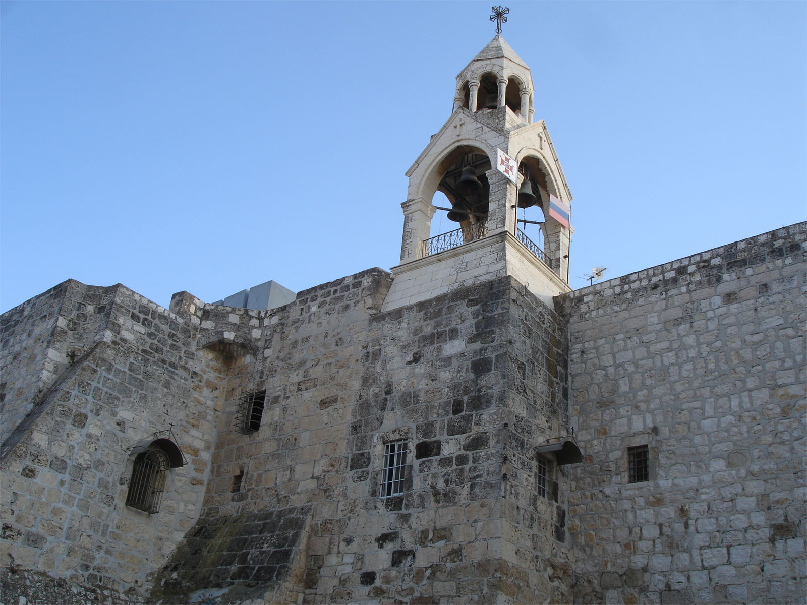 Church of the Nativity is the oldest church in the Holy Land still in use, commemorating the birthplace of Jesus Christ. Since St. Helena is believed to have built the Church of the Nativity, there are others who believe that it was the Emperor Constantine who ordered the construction of monumental churches to honor the three principal events of Jesus' life.